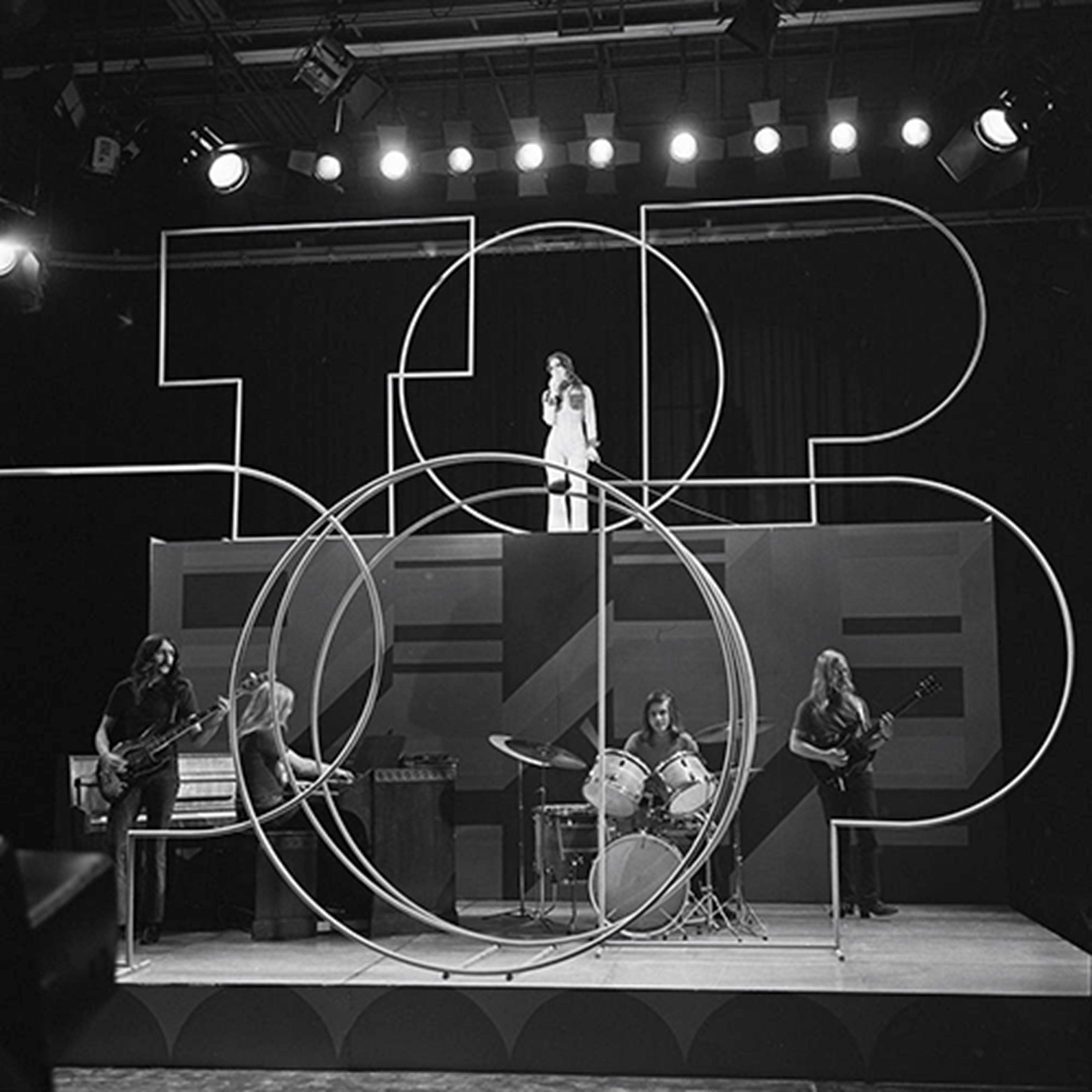 Dutch musical group Earth & Fire during rehearsels for Toppop AVRO TV Show. Photo shot 15 Oct. 1971; Dutch TV broadcast 18 Oct. 1971